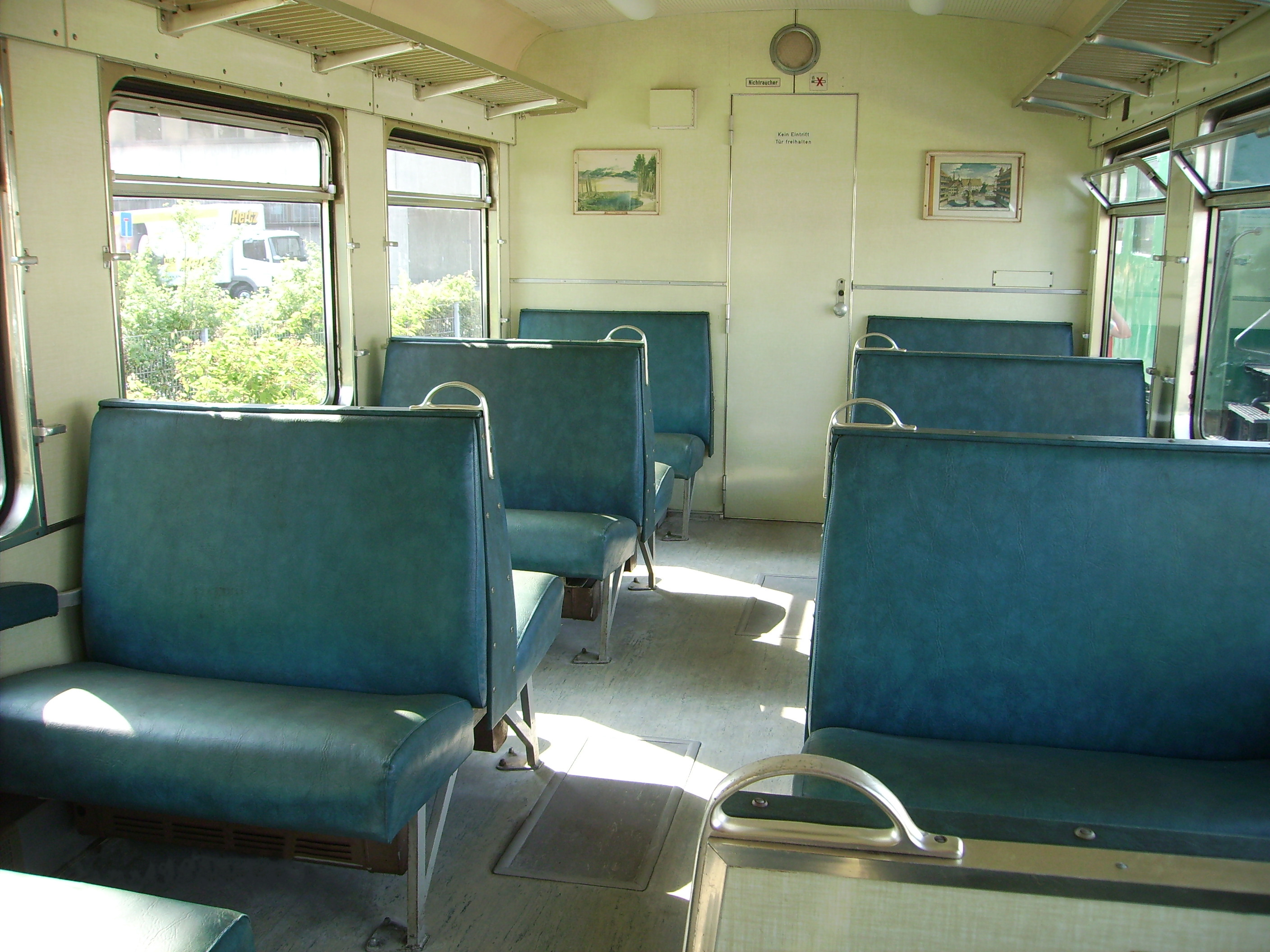 Inside of an KBE Silberpfeil (ET 201).